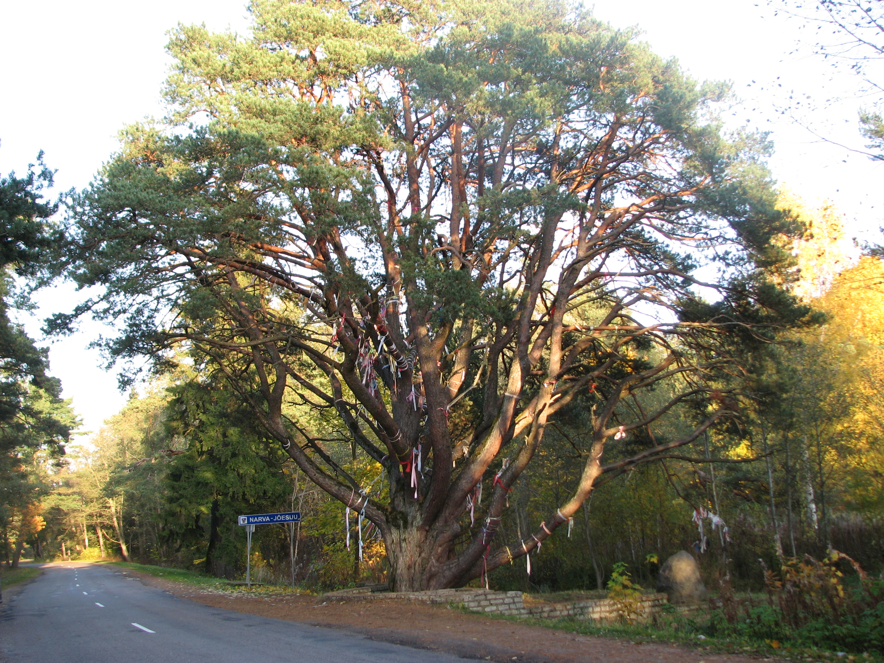 Pine of Meriküla, Meriküla, Estonia.